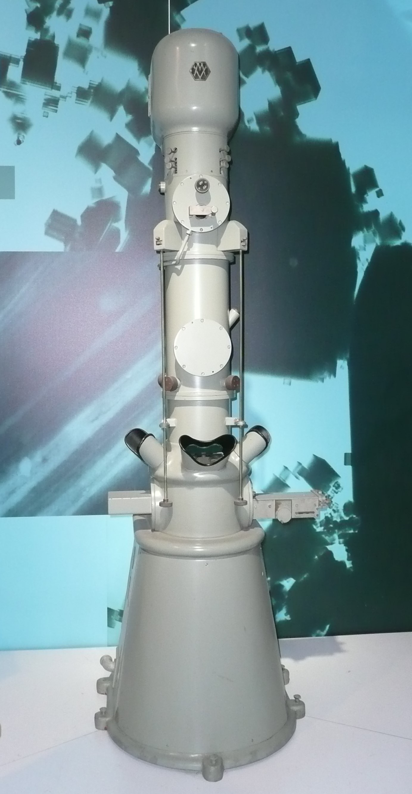 Metropolitan-Vickers electron microscope on display at the Manchester Museum of Science and Industry